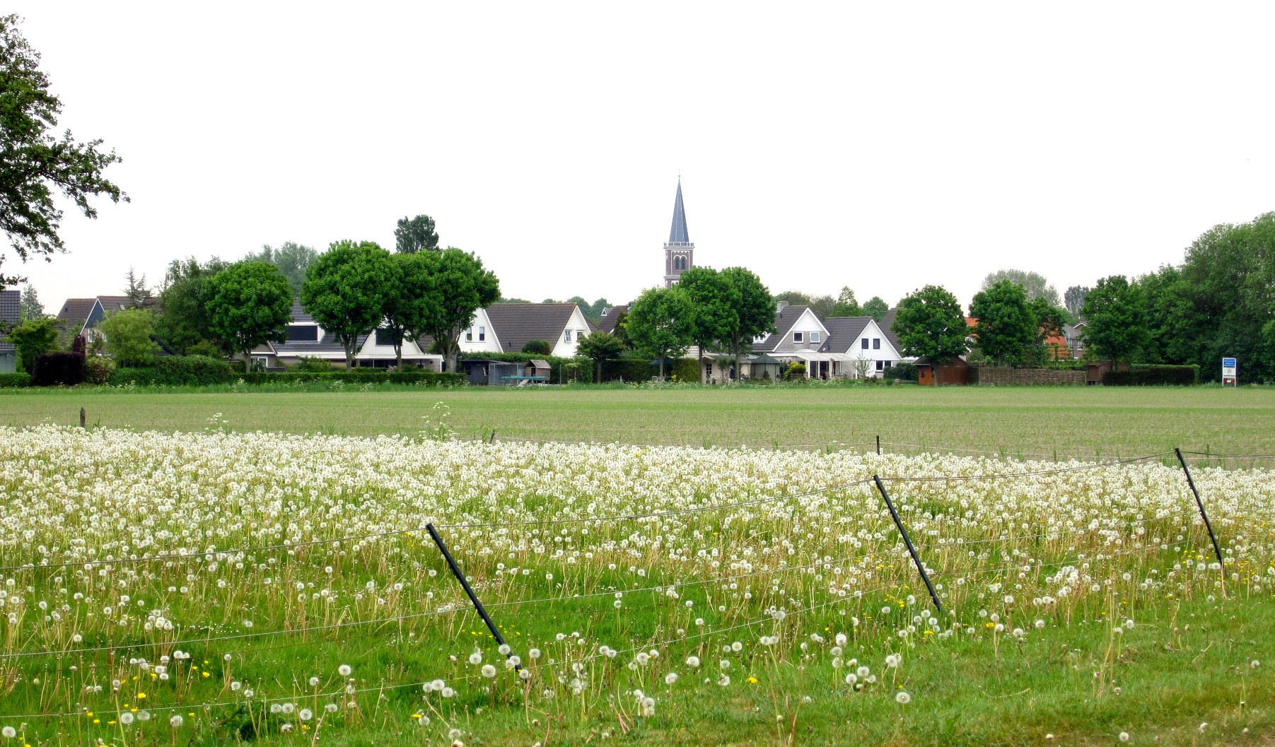 The village of Menaam (Menaldum), Friesland, the Netherlands, as viewed from the direction of Slappeterp.